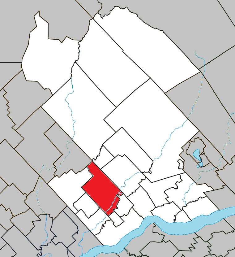 Location of Saint-Alban, Quebec within Portneuf Regional County Municipality.